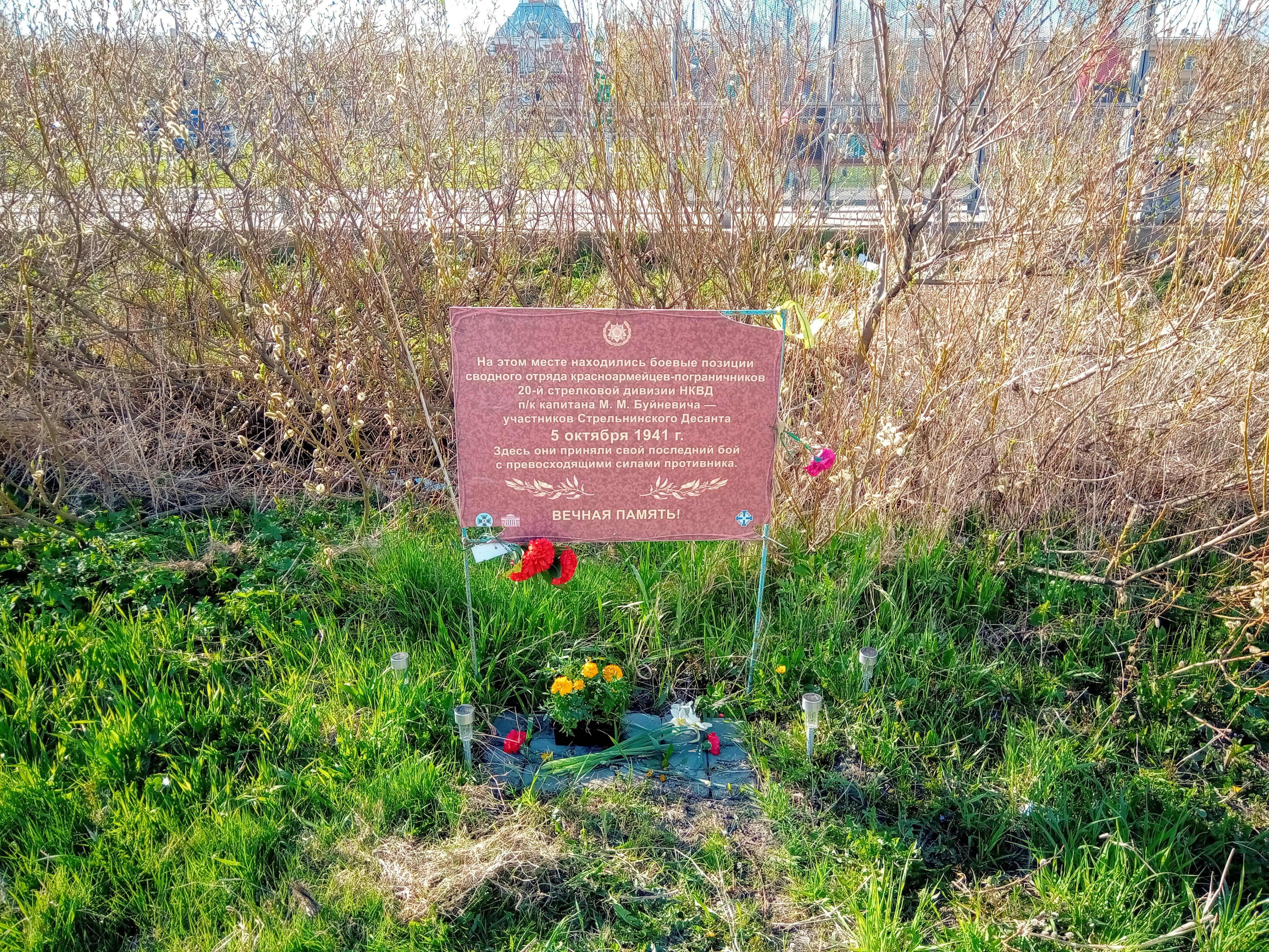 Strelna naval landing memory mark